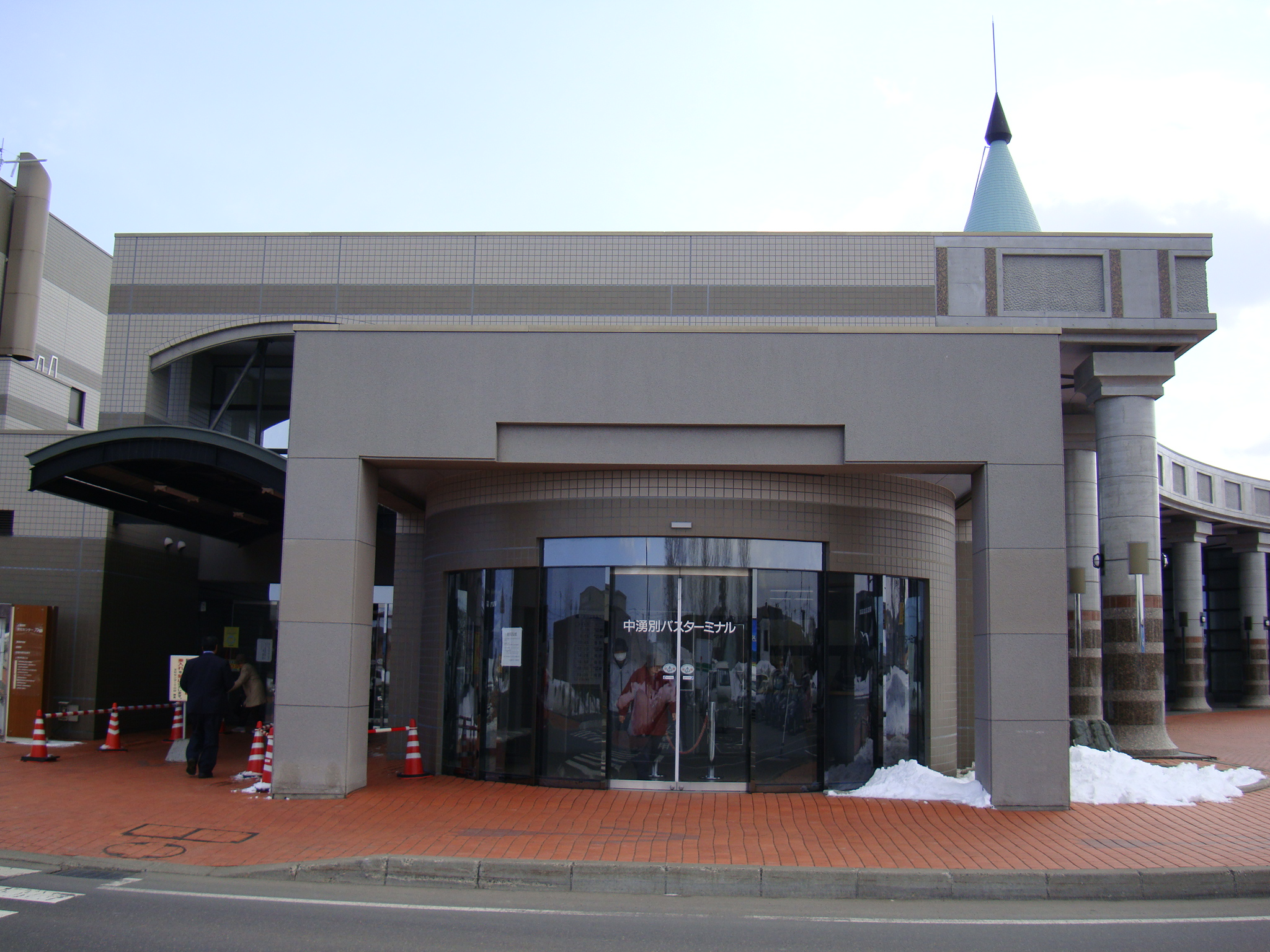 Naka-Yubetsu Information (abolished as of 1 October 2010) at Michinoeki Kamiyubetsu Onsen Tulip no Yu